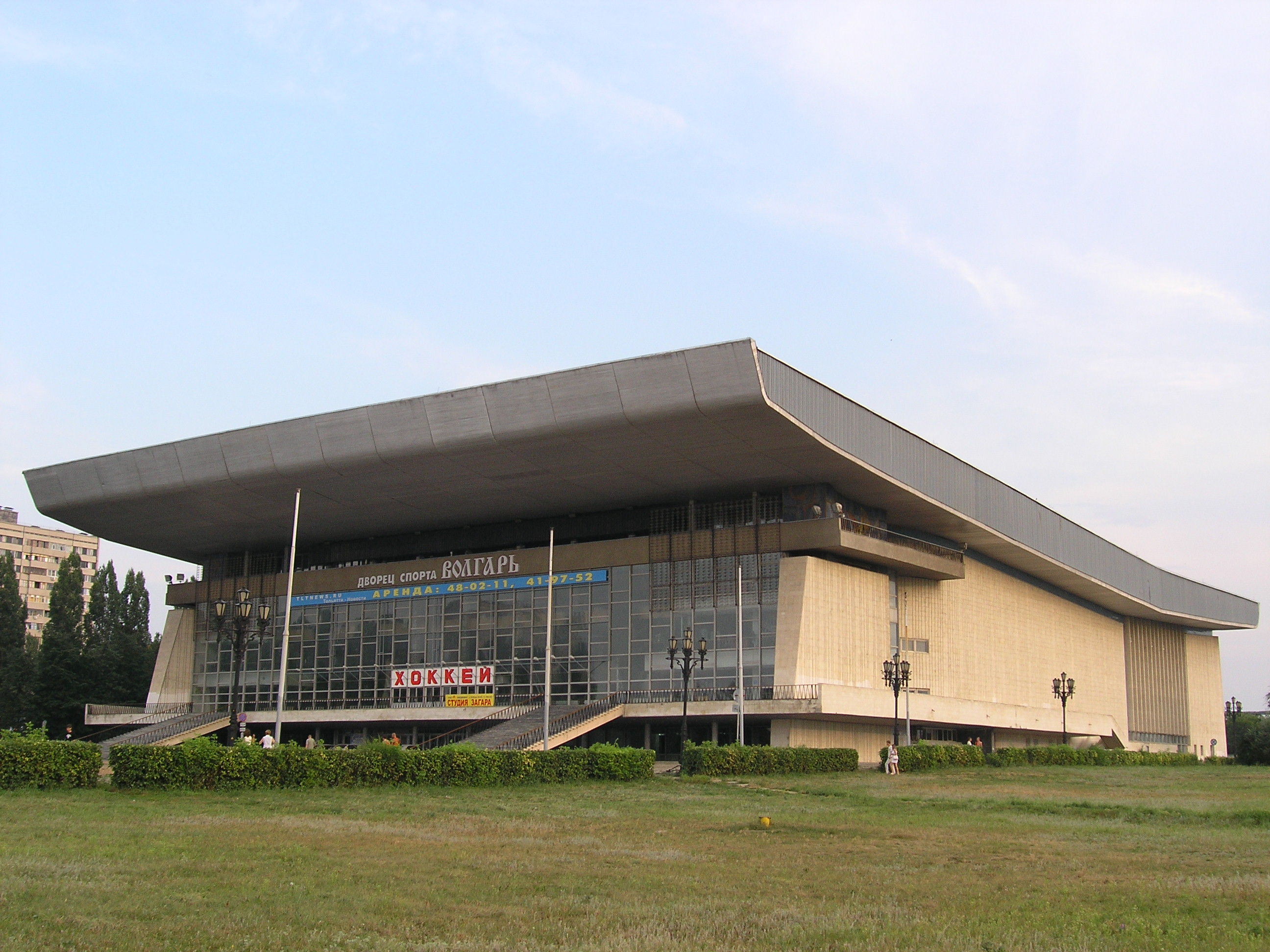 Volgar Sport Palace, Togliatti, Russia